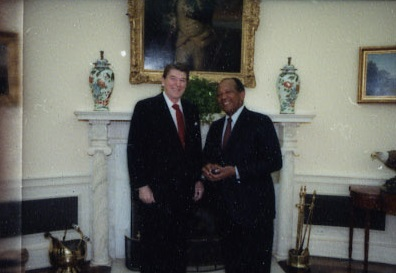 Ronald Reagan and Terence Todman in Oval Office.